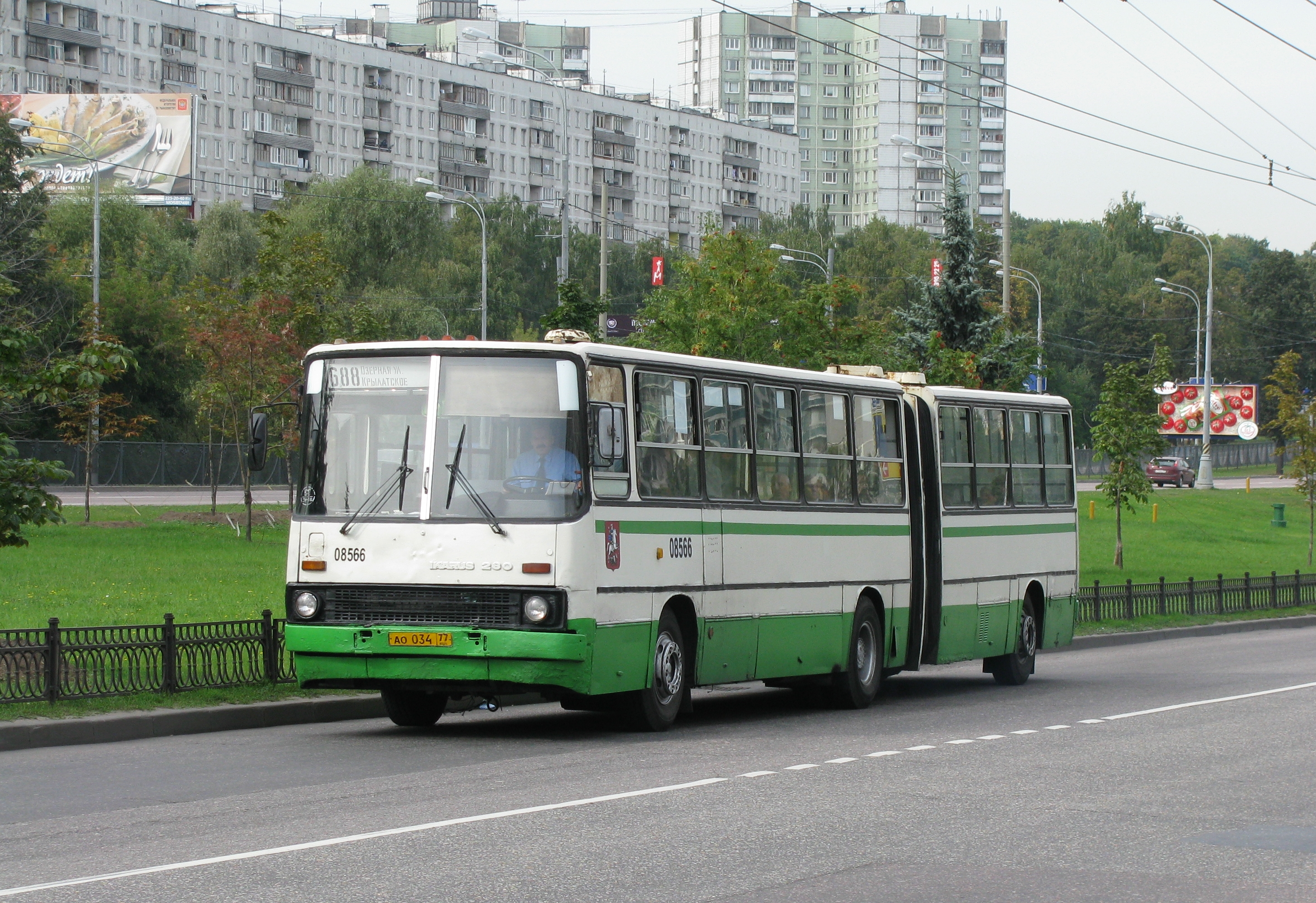 Ikarus 280.33M in Moscow